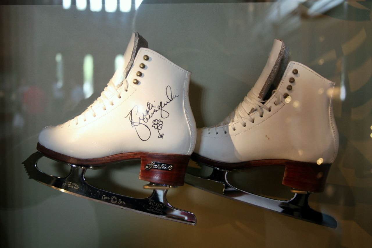 Ice skater Kristi Yamaguchi (b. 1971), a world and national champion in both singles and pairs, became the first Asian American women to win an Olympic gold medal. (Museum of American History)